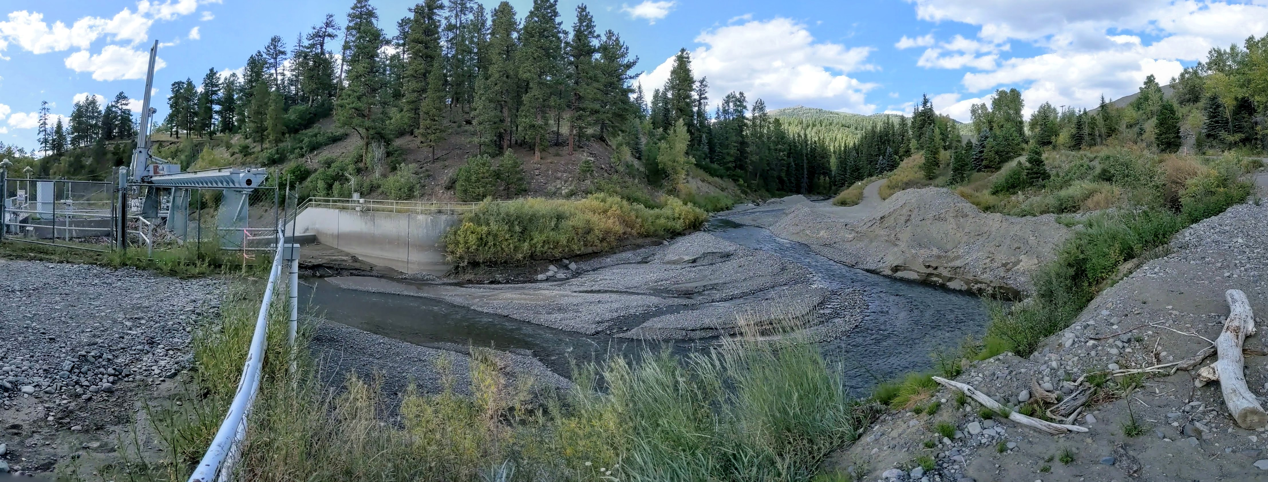 Rio Blanco at Blanco Diversion Dam, Archuleta County, Colorado